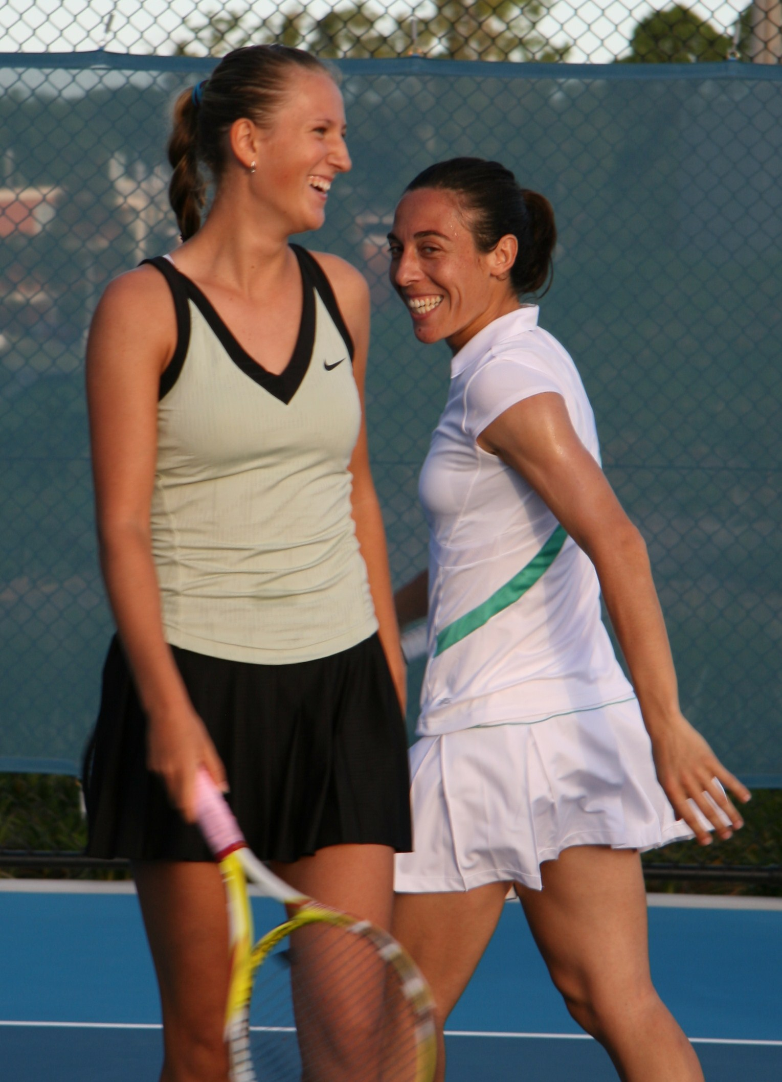 Victoria Azarenka and Francesca Schiavone at 2009 Brisbane International, Brisbane, Australia